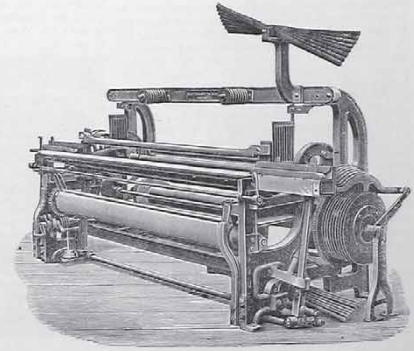 Capture from Textile Mercury, a paper published by Marsden in Manchester in 1892. [1] This UK artistic work, of which the author is unknown and cannot be ascertained by reasonable enquiry, is in the public domain because it is one of the following: A photograph, which has never previously been made available to the public (e.g. by publication or display at an exhibition) and which was taken more than 70 years ago (before 1st January 1945); or A photograph, which was made available to the public (e.g. by publication or display at an exhibition) more than 70 years ago (before 1 January 1945); or An artistic work other than a photograph (e.g. a painting), which was made available to the public (e.g. by publication or display at an exhibition) more than 70 years ago (before 1 January 1945). This tag can be used only when the author cannot be ascertained by reasonable enquiry. If you wish to rely on it, please specify in the image description the research you have carried out to find who the author was. The above is all subject to any overriding Publication right which may exist. In practice, Publication right will often override the first of the bullet points listed. Unpublished anonymous paintings remain in copyright until at least 1 January 2040. This tag does not apply to engravings or musical works. More information. You must also include a United States public domain tag to indicate why this work is in the public domain in the United States. This work is in the public domain in the United States because it was published (or registered with the U.S. Copyright Office) before January 1, 1923. Public domain works must be out of copyright in both the United States and in the source country of the work in order to be hosted on the Commons. If the work is not a U.S. work, the file must have an additional copyright tag indicating the copyright status in the source country. PD-1923 Public domain in the United States //commons.wikimedia.org/wiki/File:TM158_Fustian_Loom.png